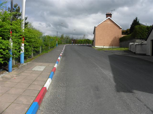 Longland Road, Donemana